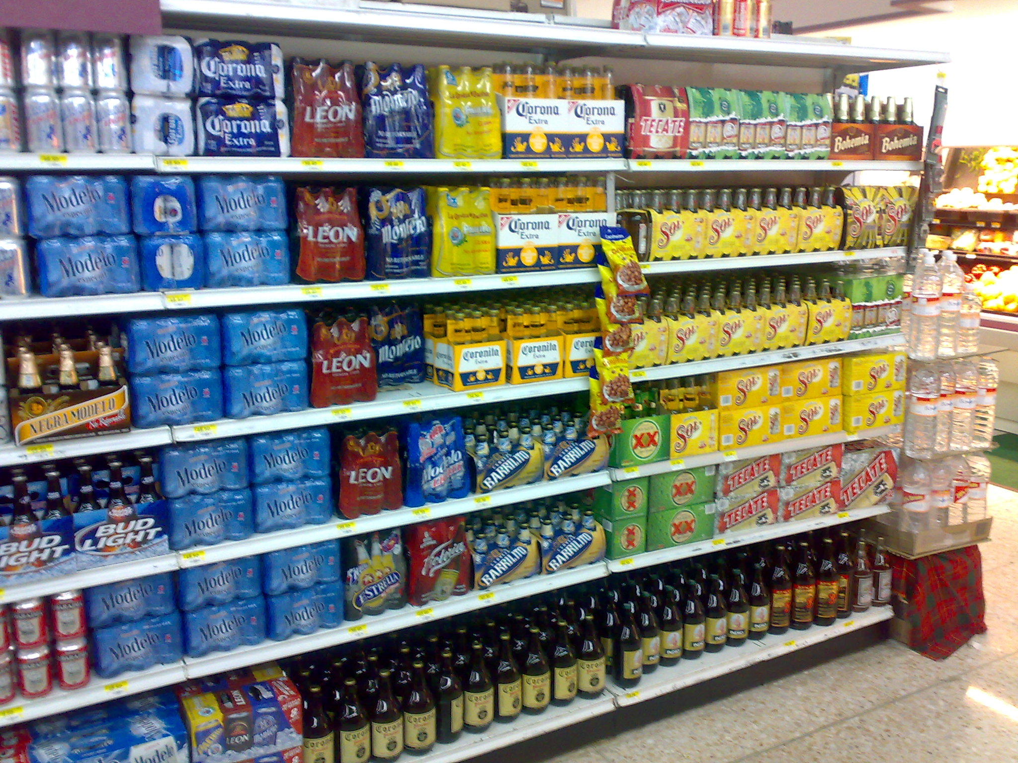 Products (beer) of Grupo Modelo and Cervecería Cuauhtémoc Moctezuma